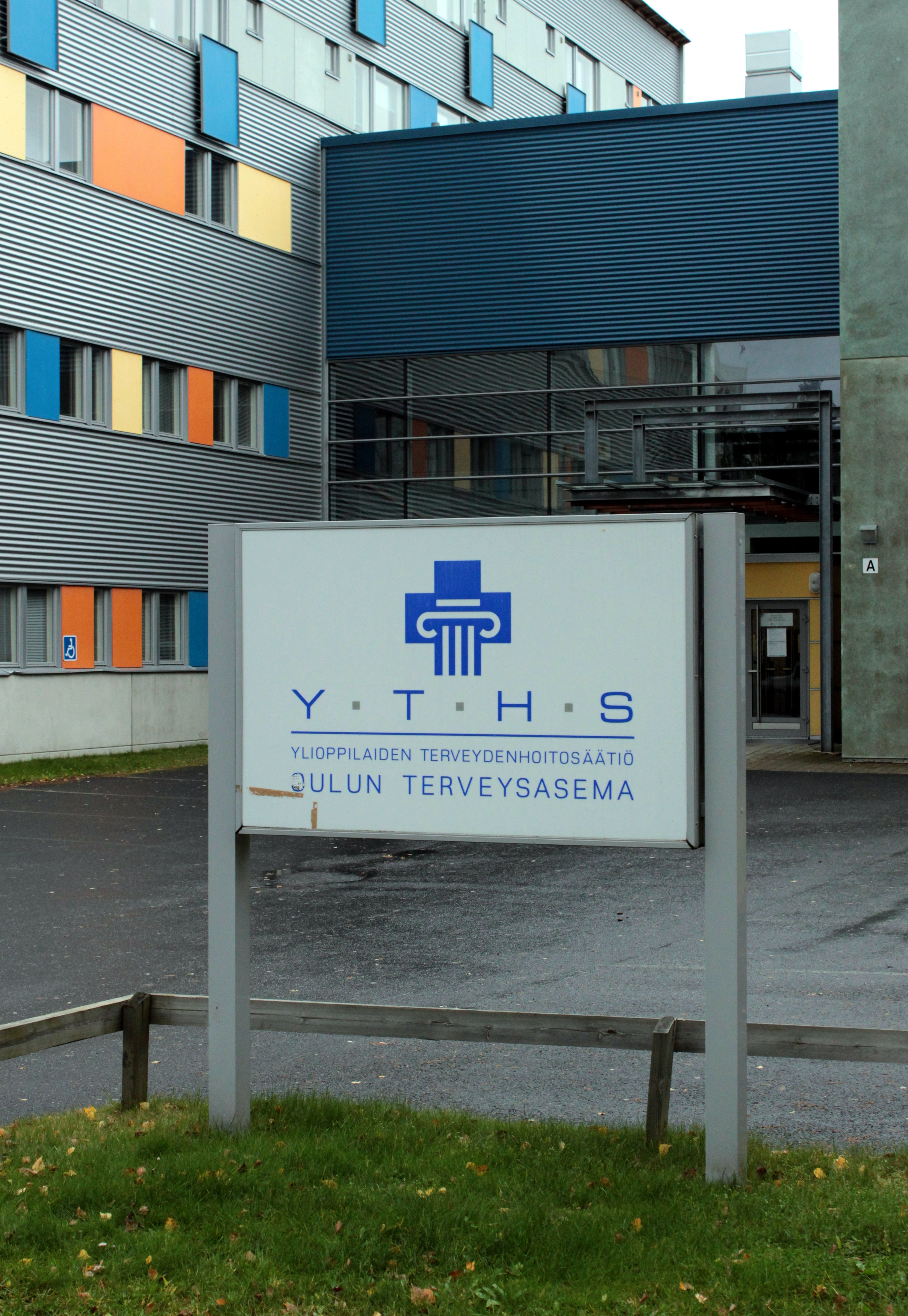 The Finnish Student Health Service (FTHS) clinic in the Oulu University Linnanmaa campus.